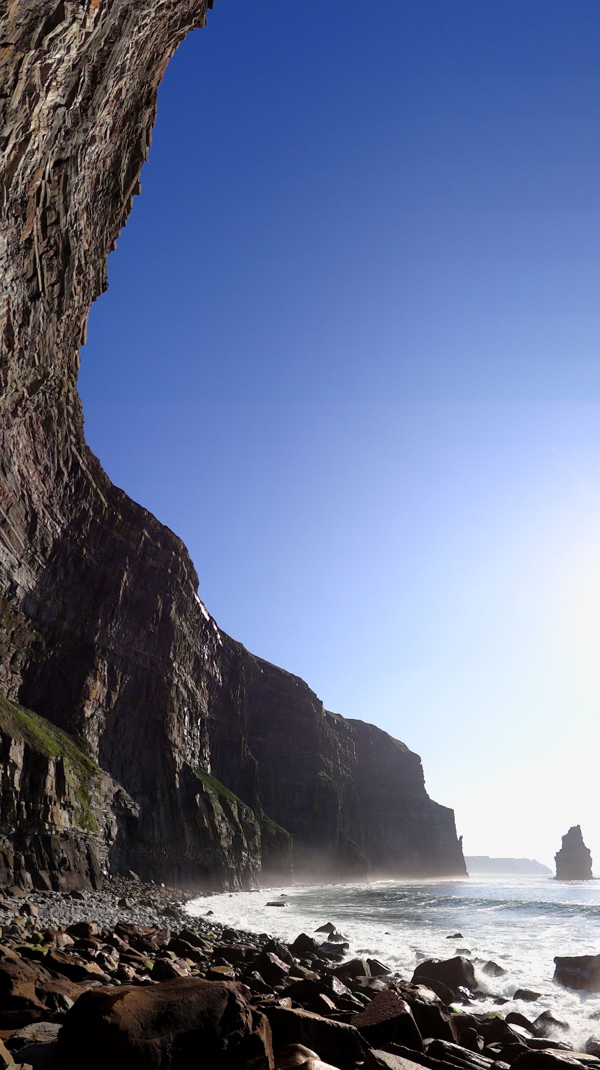 The Cliffs of Moher as seen looking south from the beach just north of the main tourist lookout where O'Brien's Tower is located.